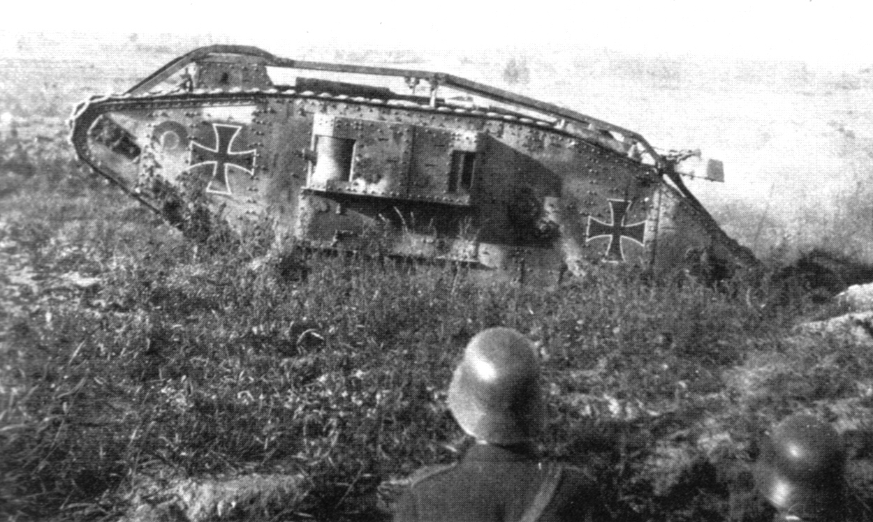 Captured British Mk IV Female Tank in German service, 1918.